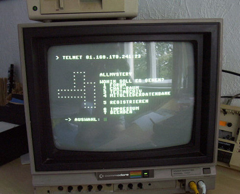 allMystery on a Commodore 64 connected to arpanet (1988)